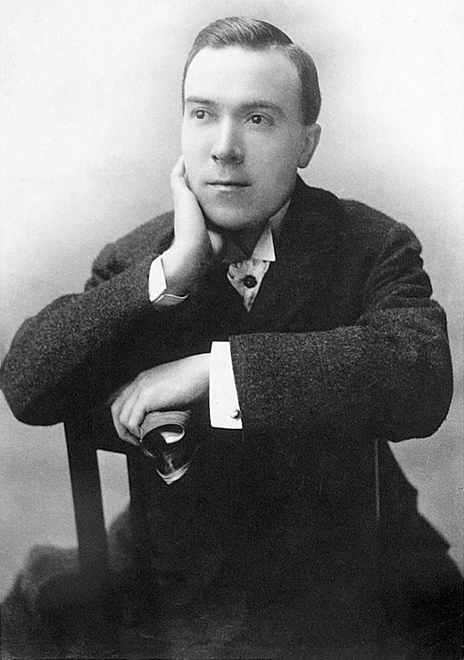 Portrait photograph of Albert Chevalier